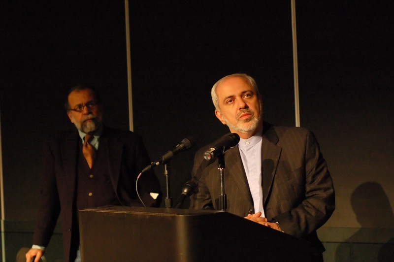 Mohammad-Javad Zarif, Iranian politician